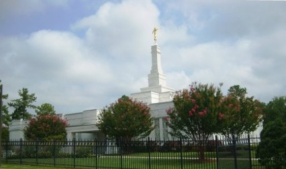 Photo of Raleigh North Carolina Temple of the Church of Jesus Christ of Latter-day Saints